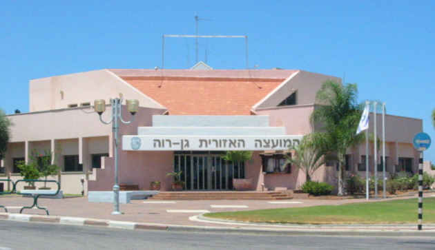 seat of Gan Raveh Regional Council